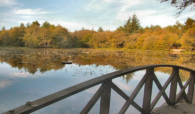 Tversted søerne, Vendsyssel, Danmark (Tversted lakes, two small lakes in the northern part of Jutland, Denmark.) Photo taken by Jørgen Larsen, 2005-10-05